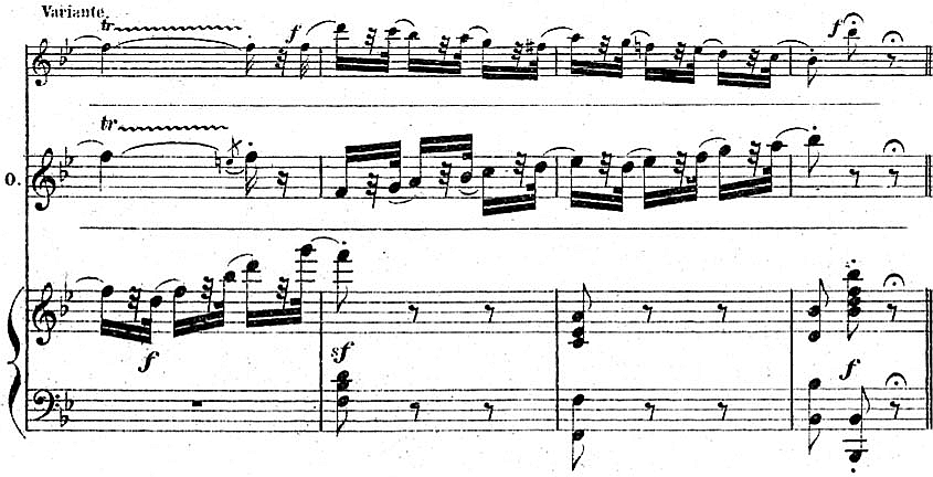 Musical score. The final cadenza from the Valse section of Ophélie's "Mad Scene" in Act 4 (piano-vocal score, p. 292).